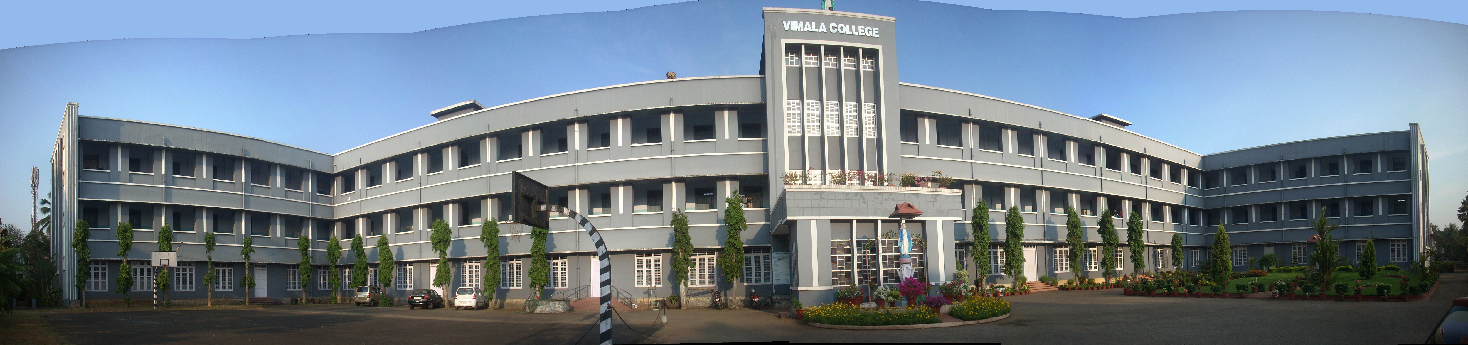 Vimala College is a Christian college in Thrissur of Kerala state, India.